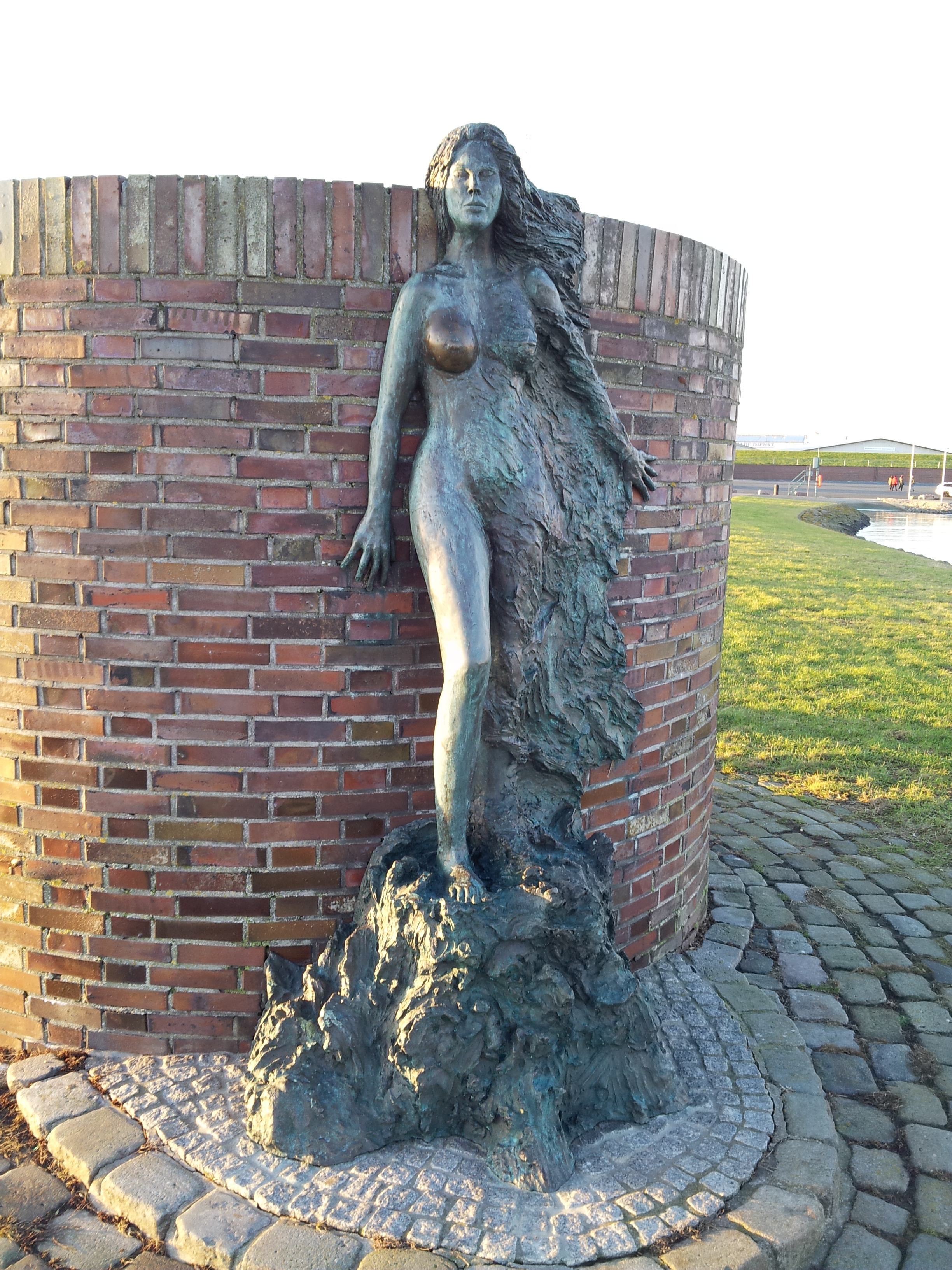 Sculpture Windsbraut by Hartmut Wiesner in Wilhelmshaven, Germany.